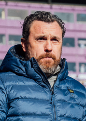 Real Valladolid - Rayo Vallecano, 18th fixture of the 2018-19 La Liga, January 5, 2019.